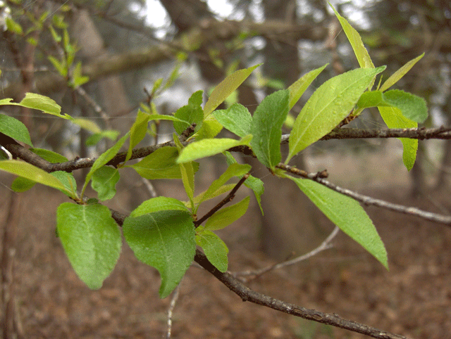 Chickasaw Plum (Prunus angustifolia) leaves Found in Silver River State Park, Florida